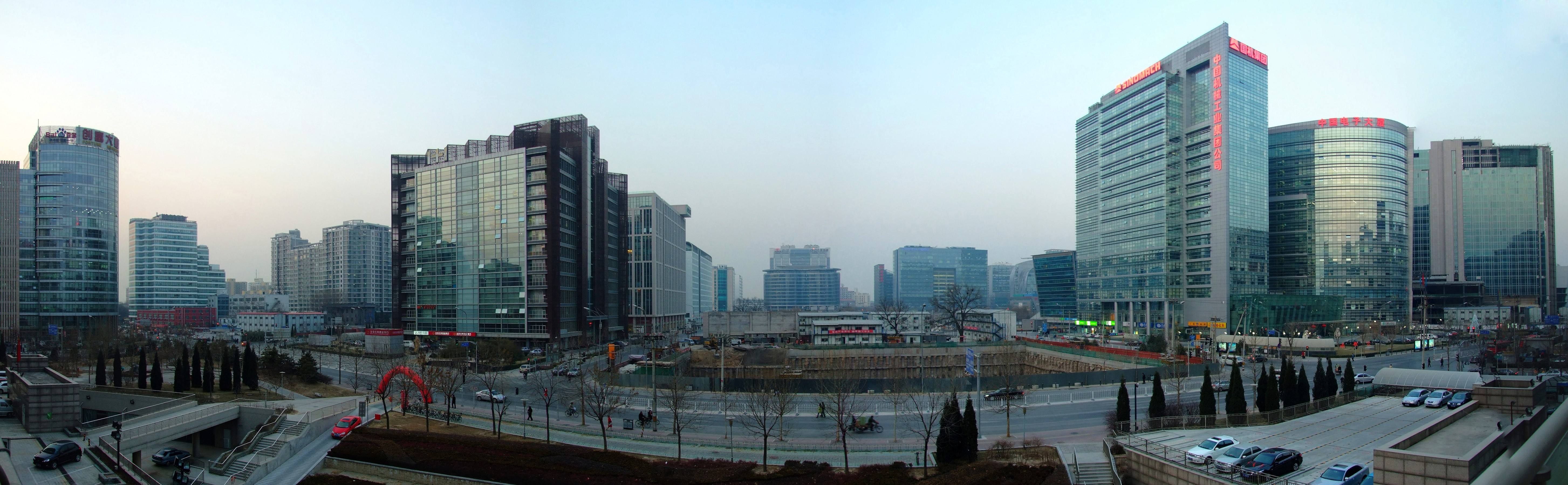 Buildings in Zhongguancun 中文（中国大陆）: 中关村建筑群